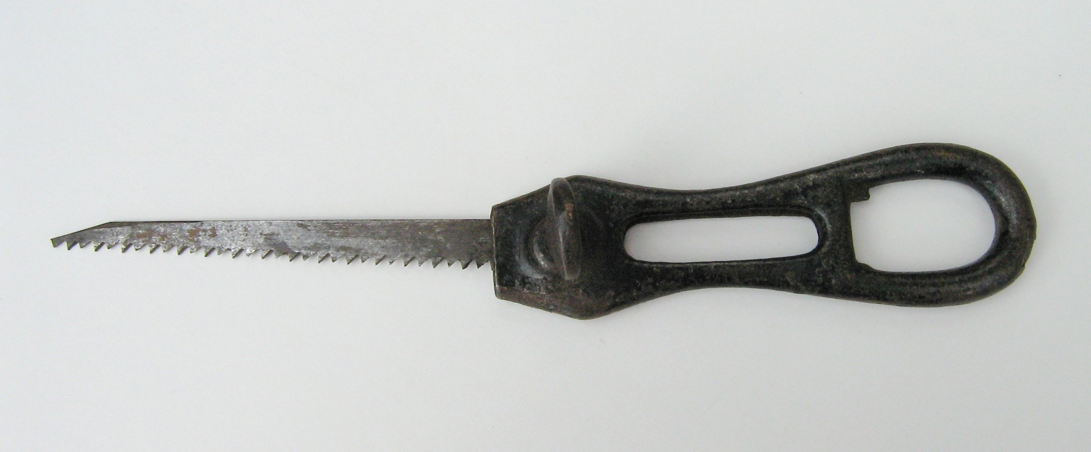 Very small saw.